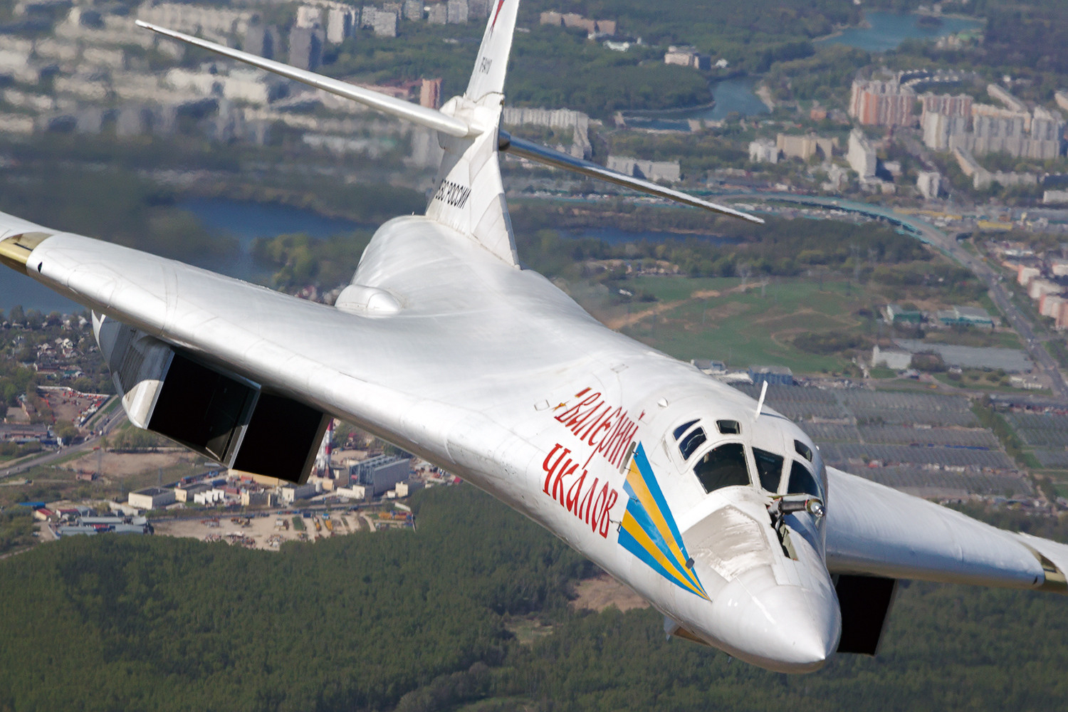 Tupolev Tu-160 "Valeriy Chkalov" (RF-94110) in flight over Moscow